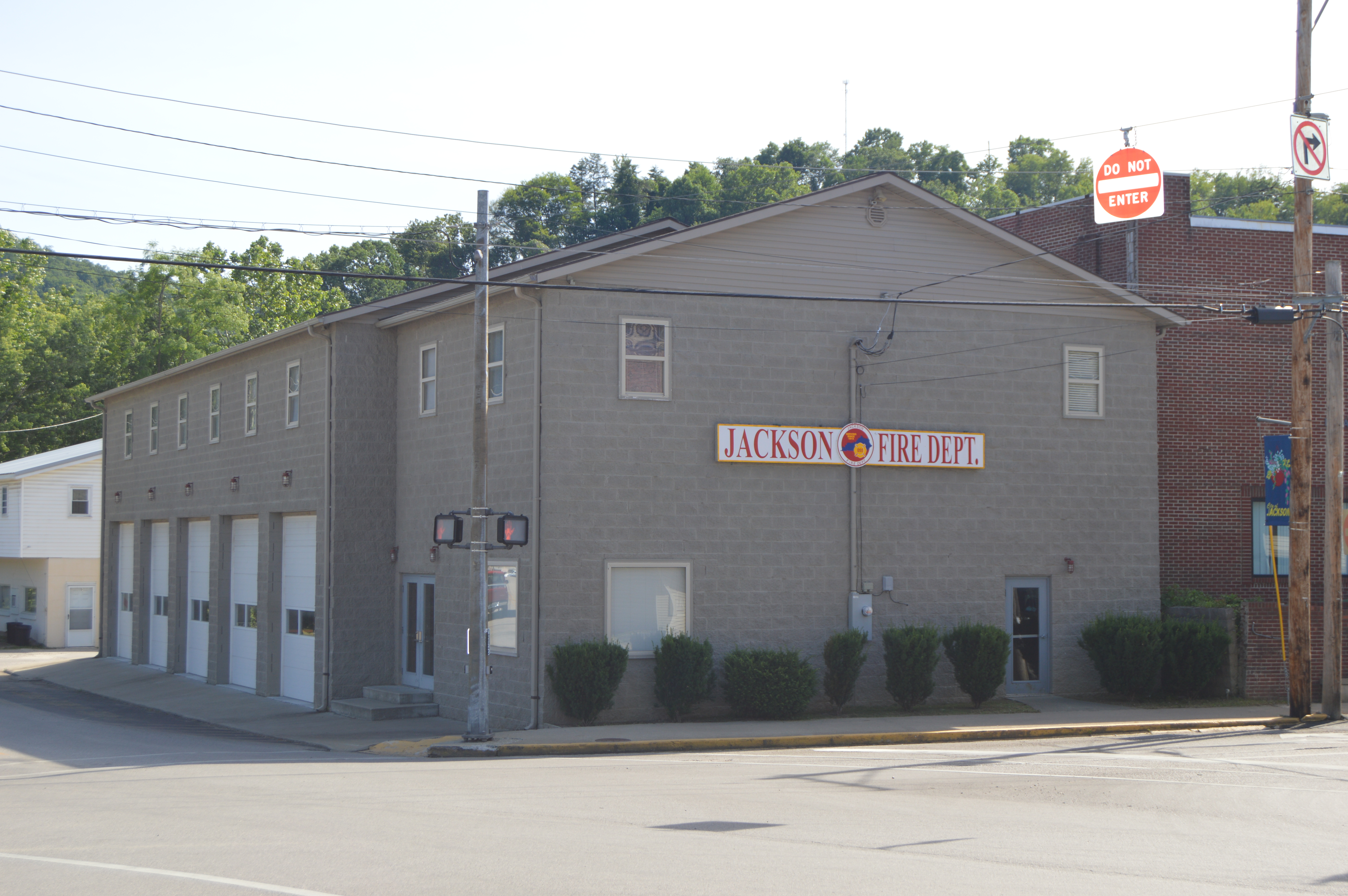 Comprehensive view of the Jackson Fire Department, located on the western corner of College Avenue (Kentucky Route 2463) and Broadway in Jackson, Kentucky, United States. This was formerly the location of Crain's Wholesale and Retail Store, which was listed on the National Register of Historic Places in 1986; although destroyed, it has not yet been delisted from the Register.